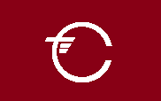 Flag of Tamakawa Fukushima